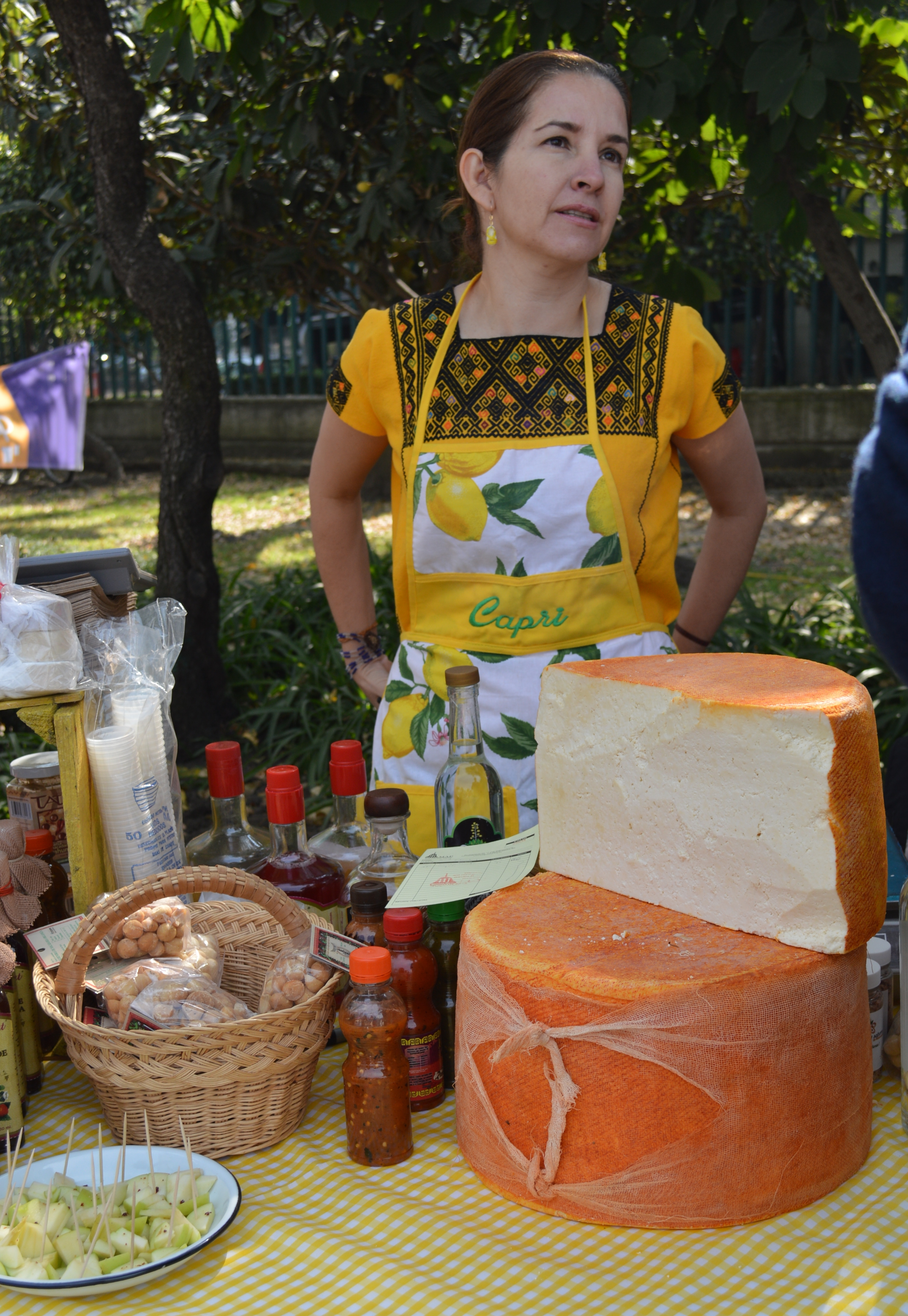 Sheep cheese vendor at the Nuestro Mercado de Quesos Artesanales of the Asociación de Amigos del Museo de Arte Popular, held at Lincoln Park in Polanco, Mexico City